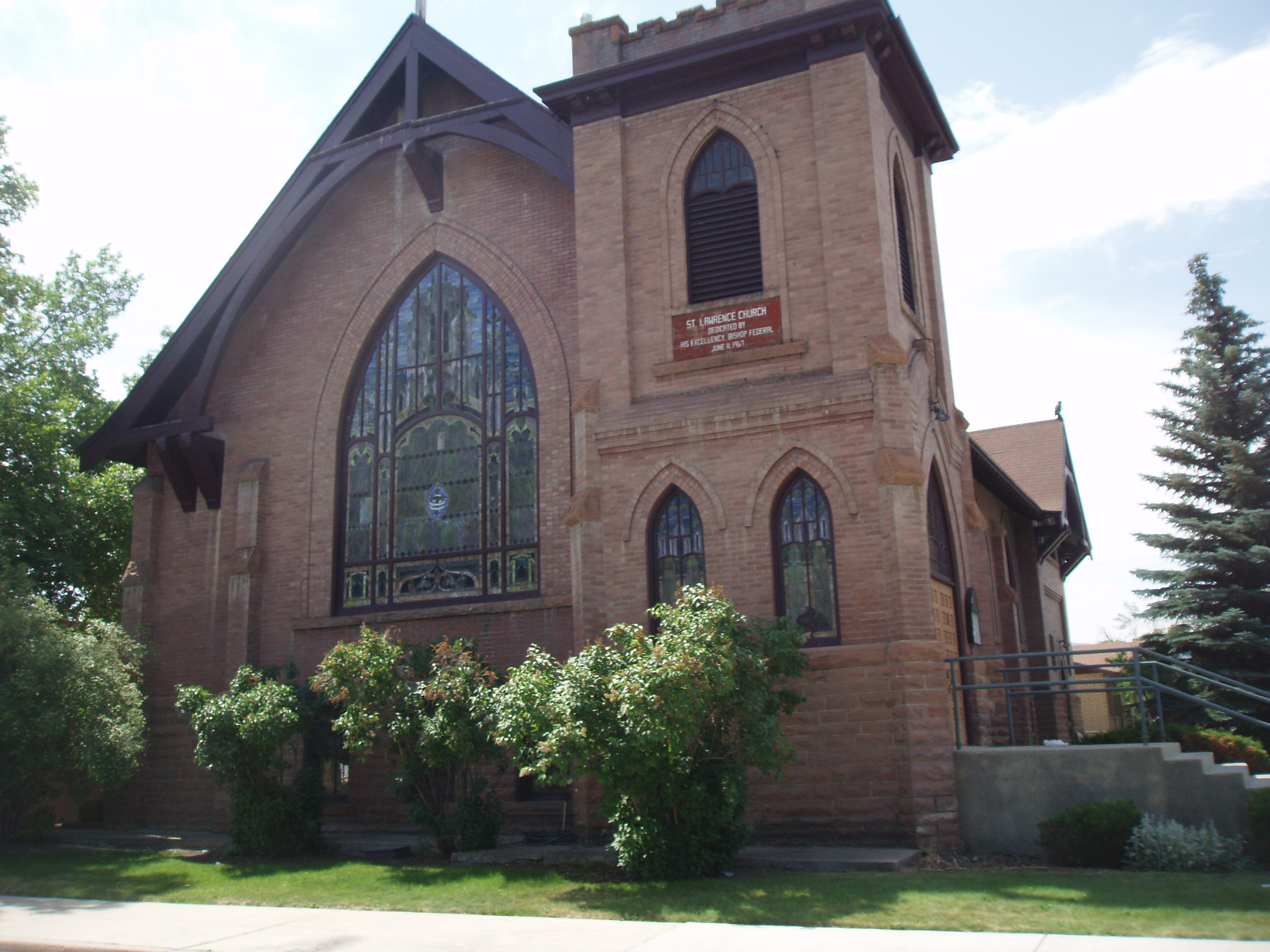 St. Lawrence Catholic Church, a historic church in Heber City, Utah, United States, is listed on the National Register of Historic Places as Heber Second Ward Meetinghouse.